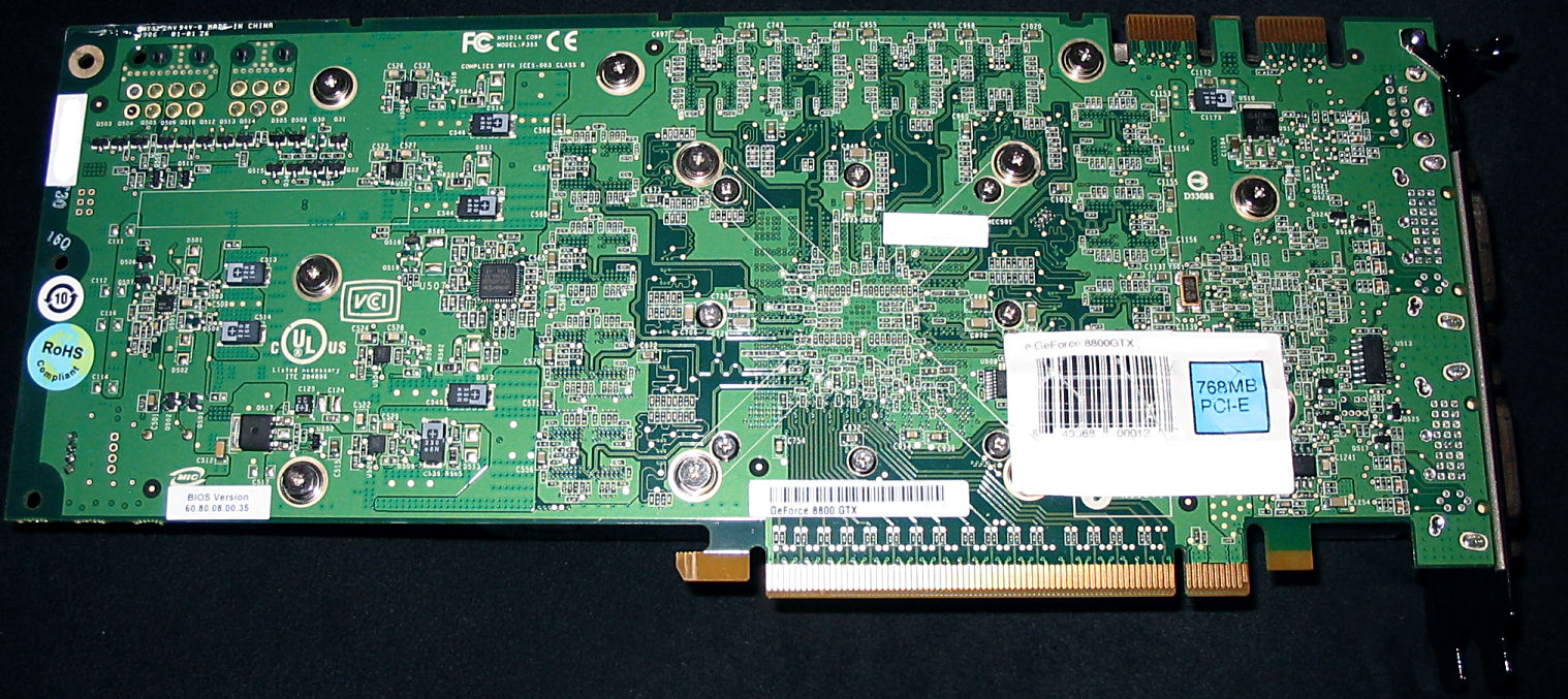 GeForce 8800 GTX photo. Taken by uploader.